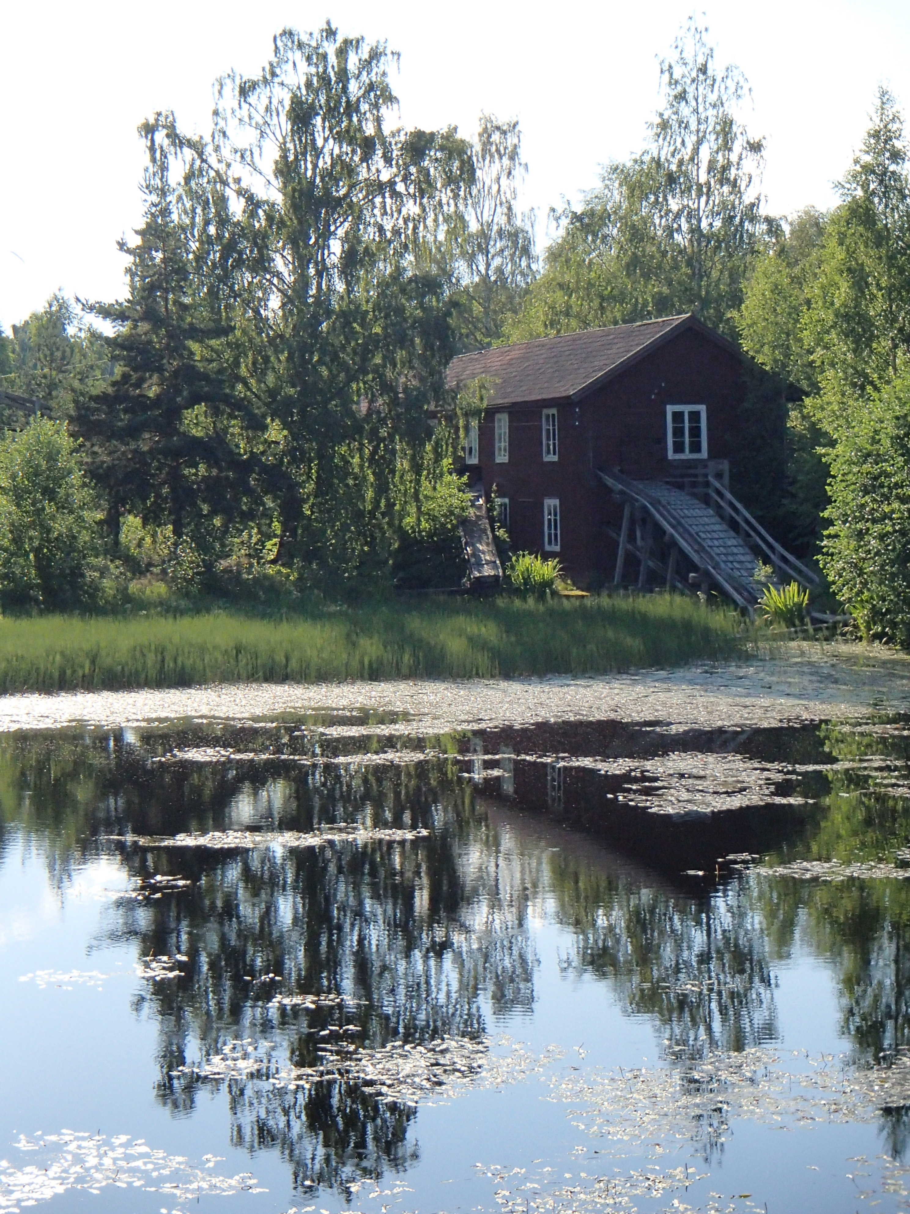 Sawmill buildings of "Ede såg" at Edevägen 29A-29B in Ede, near Delsbo, Hudiksvall Municipality